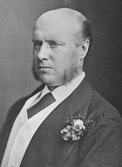 Lord Rosmead (1824–1897), British colonial governor.